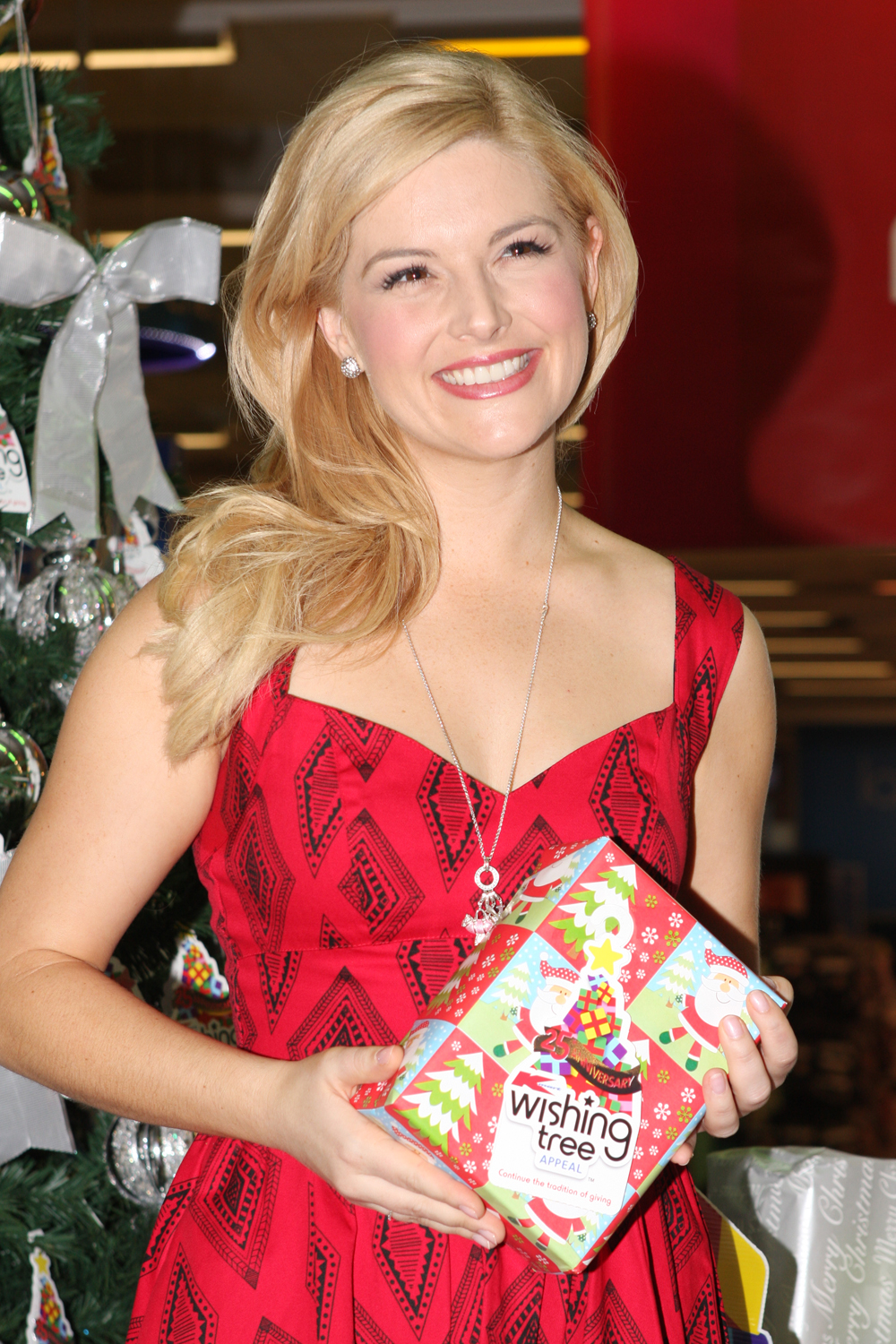 Australia’s largest Christmas gift appeal will celebrate its 25th Anniversary when it launches this Wednesday 14 November. The Kmart Wishing Tree Appeal has collected over five million gifts during the 24 years it has been running, providing essential help to families in need over the festive period. This year it will raise the stakes further, aiming to collect half a million gifts for The Salvation Army. To celebrate this exciting milestone, well-known Australian personalities willcome together to place the first gifts under the Christmas tree to officially launch the 2012 Appeal.